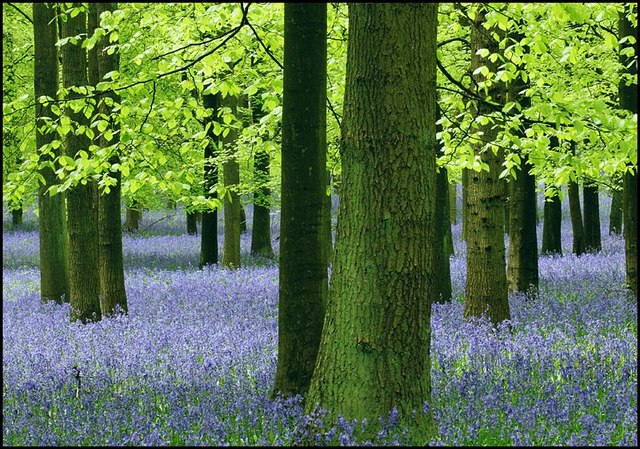 Trees and Bluebells, Dockey Wood, Ashridge A little sunlight adds a sparkle to the greens and blues. Dockey Wood is one of the best places in the Chilterns to see masses of bluebells.